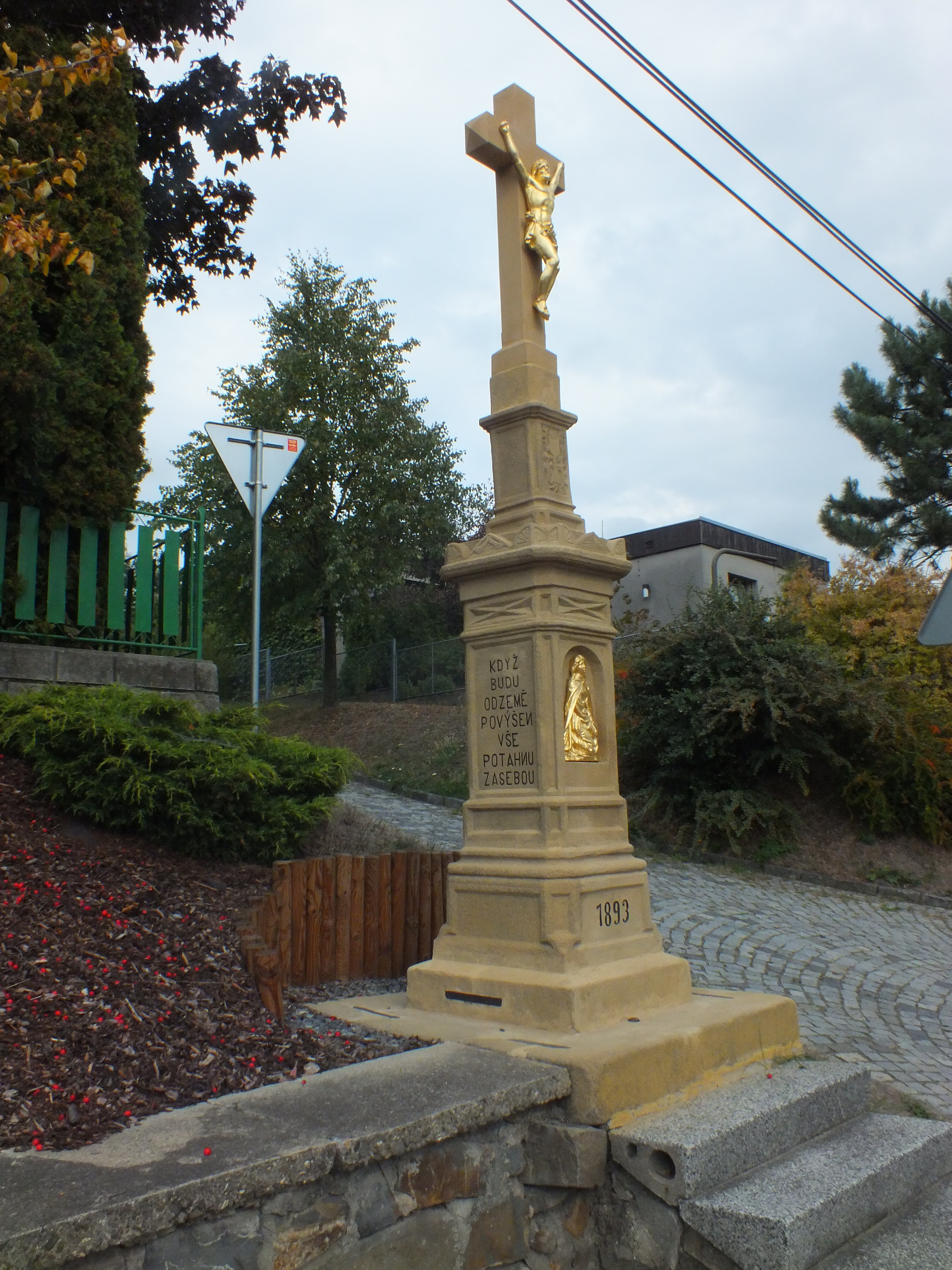 Bítov (Nový Jičín District) - the cross in the centre ov the village